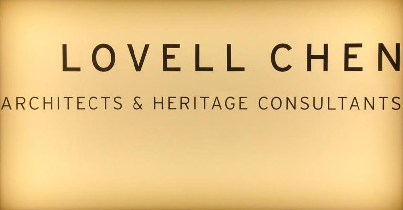 Lovell Chen Logo